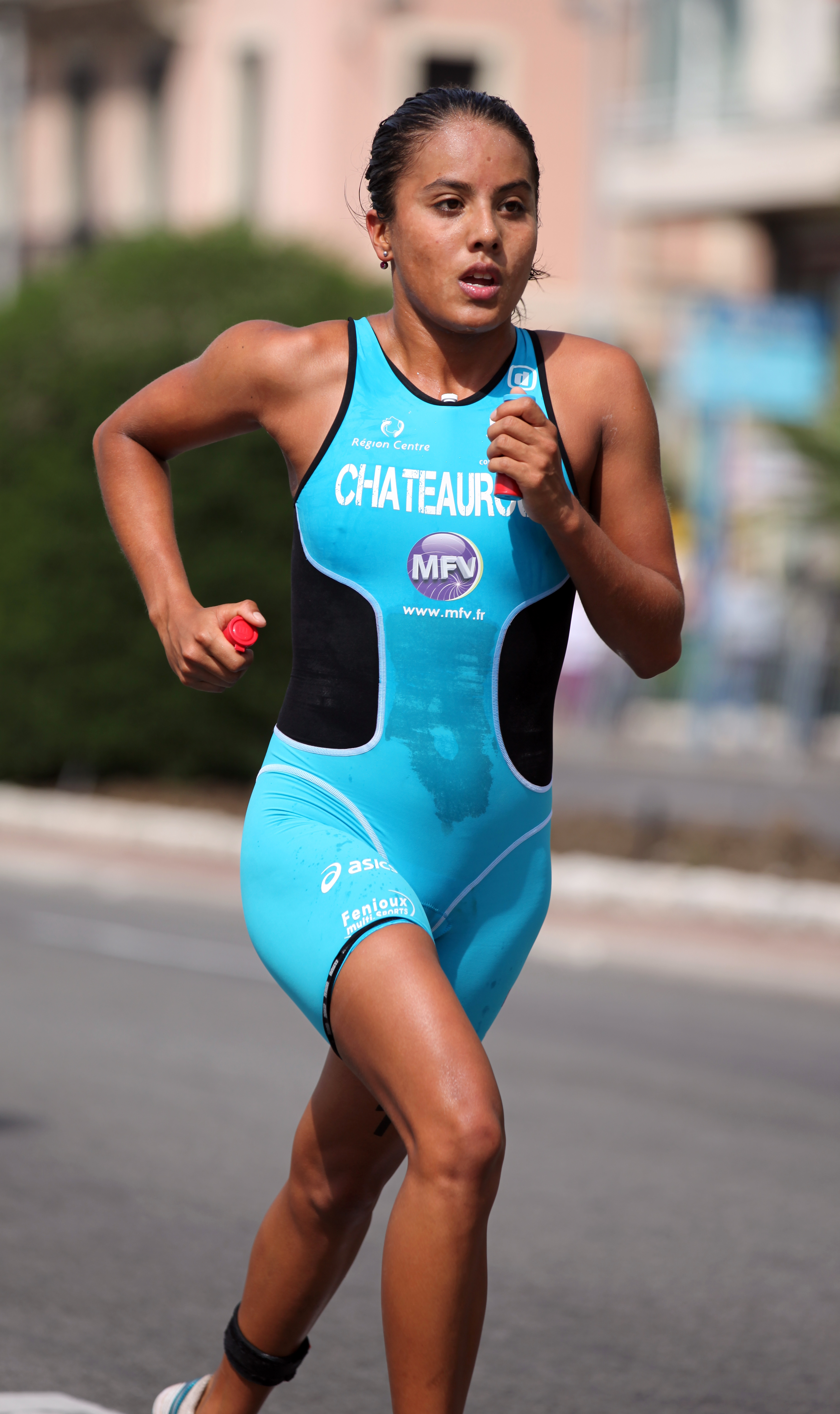 Ruth NIVON-MACHOUD at the Triathlon de Nice IFrench Club Championship Series), 2011.